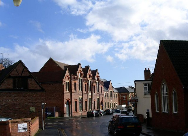 The museum of Royal Worcester on Severn Street. Taken from just below the Edgar Tower